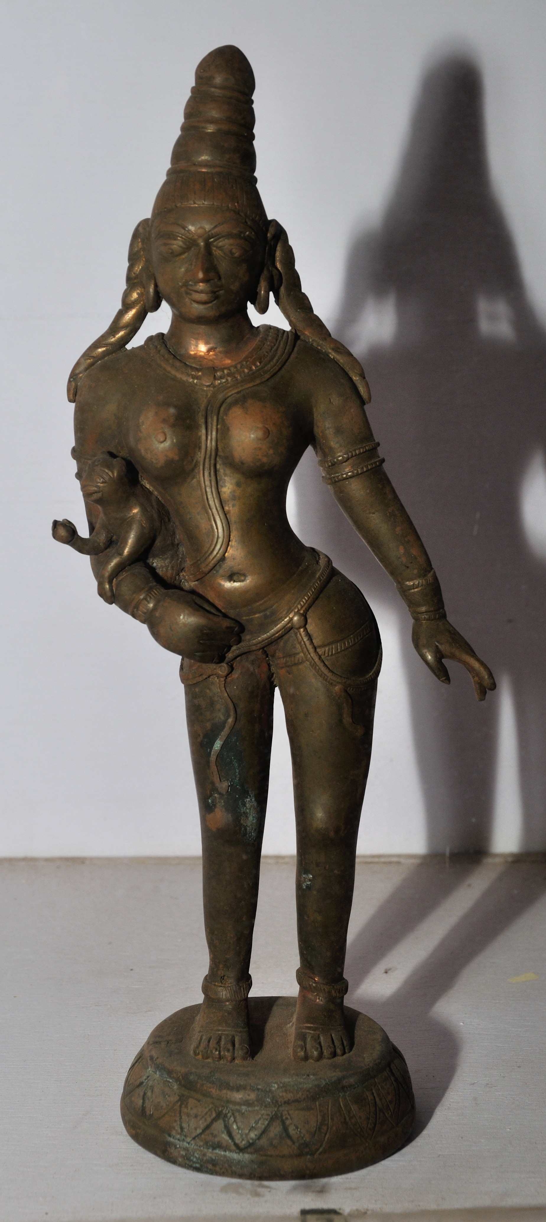 This artefact resides at the Government Museum, (hi: Rashtriya Sangrahalaya) formerly The Curzon Museum of Archaeology, Museum Road or Murari Lal Rajpal road, Dampier Nagar, Mathura, Uttar Pradesh, India. This museum is administrating by the State Government of Uttar Pradesh of India.